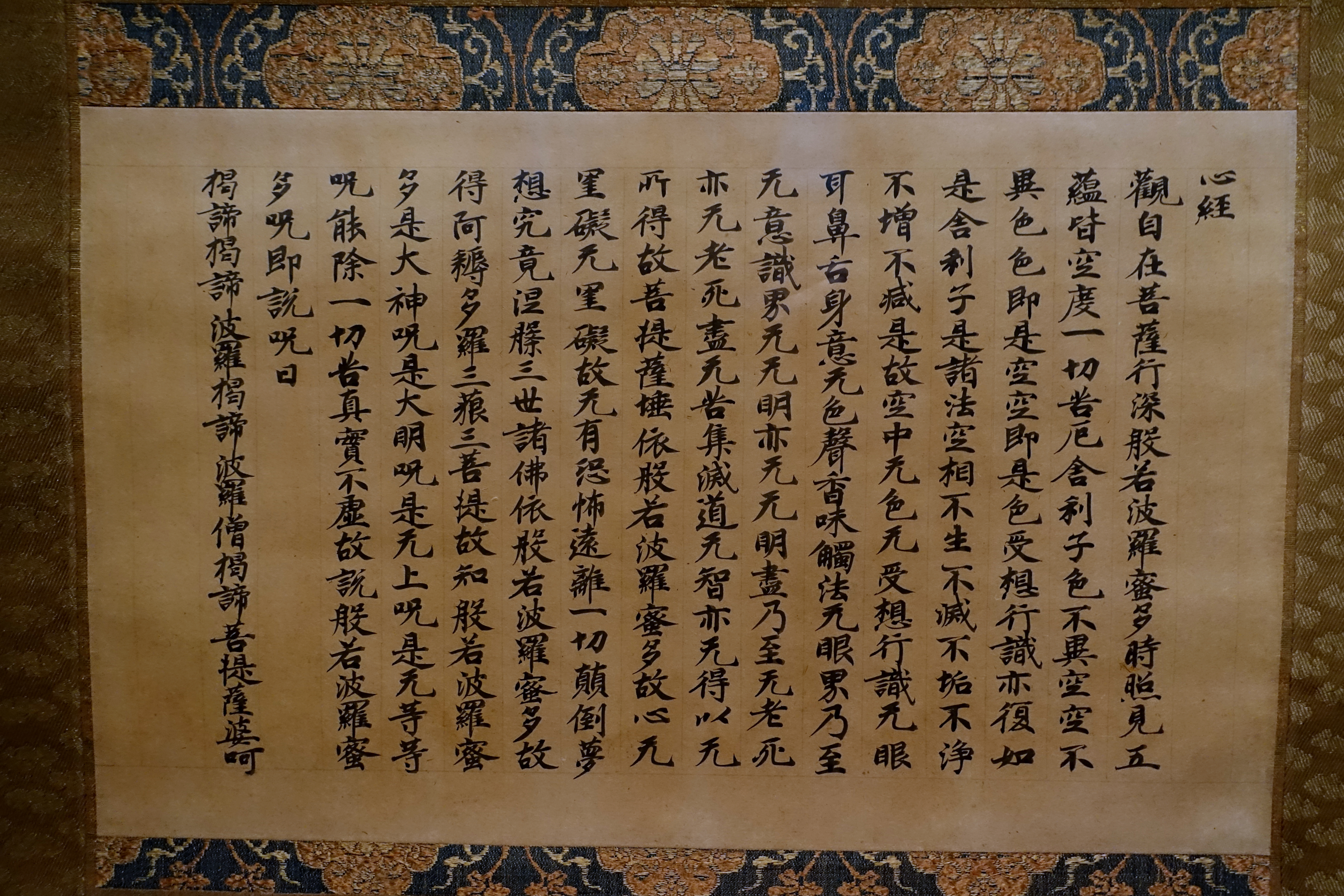 Exhibit in the Freer Gallery of Art, Washington, D.C., USA.